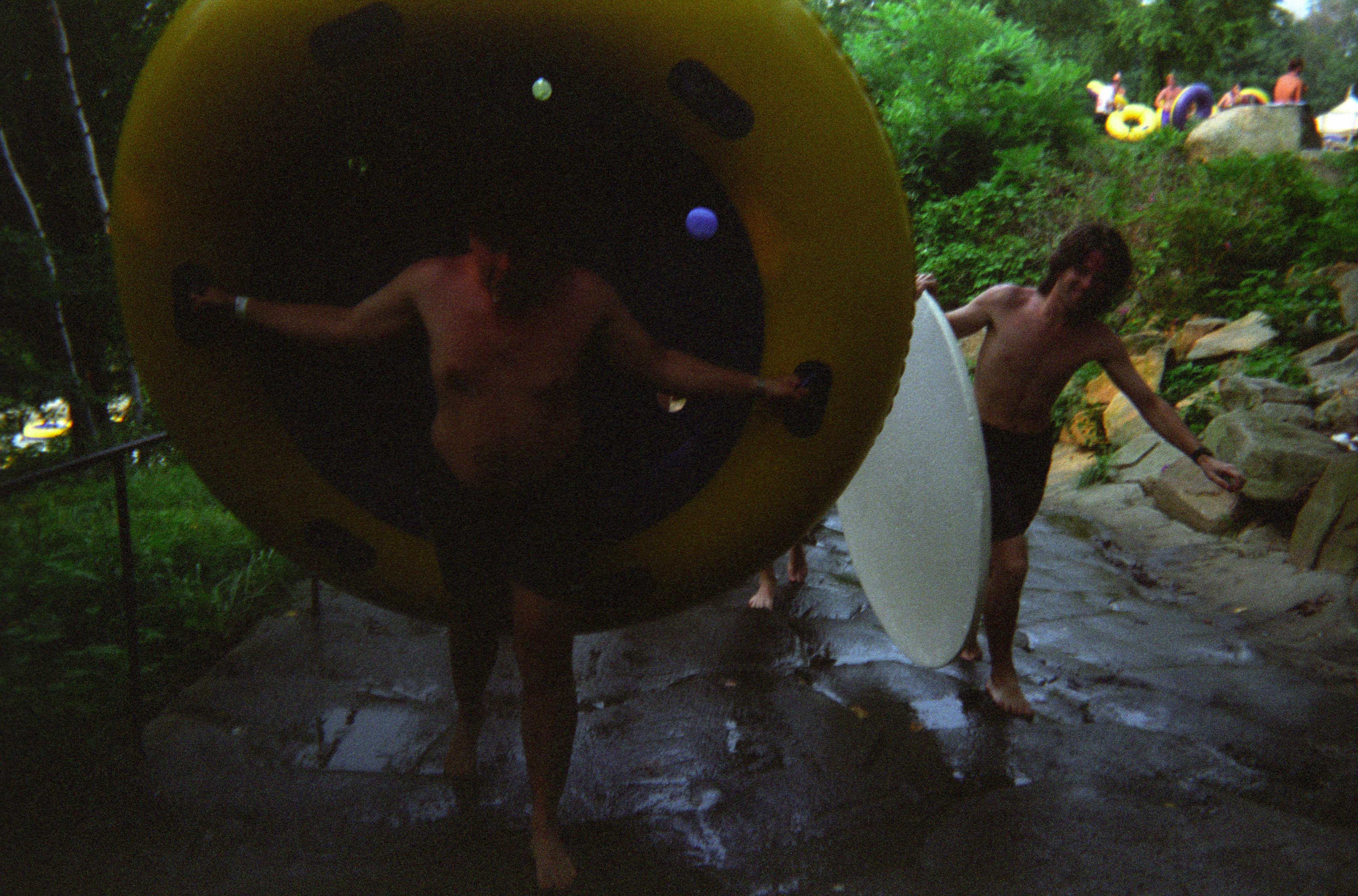 We had to carry our tubes up the mountain ourselves. Action Park, Vernon, New Jersey, August 1994